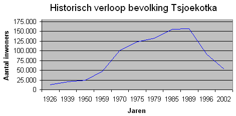 Chart of population over time of Chukotka, Russia.